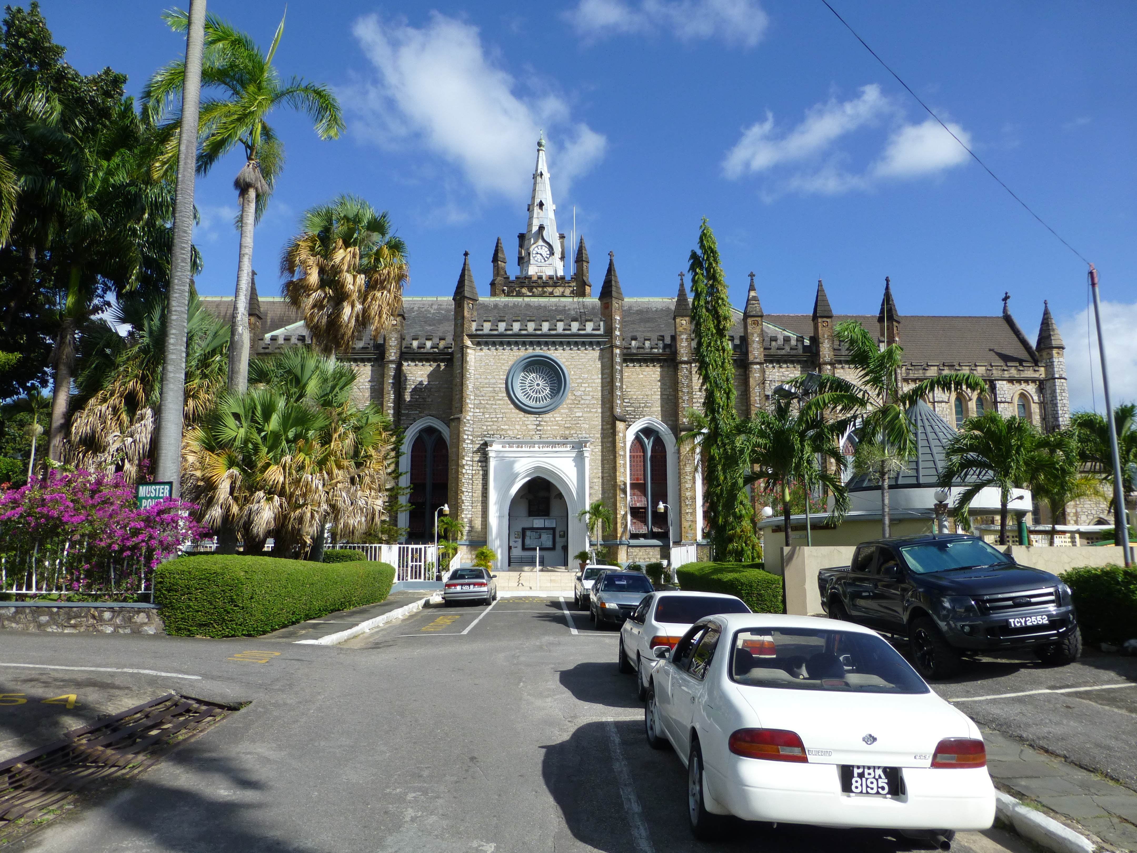 Rear view of the Cathedral of the Holy Trinity in Port of Spain, Trinidad and Tobago.